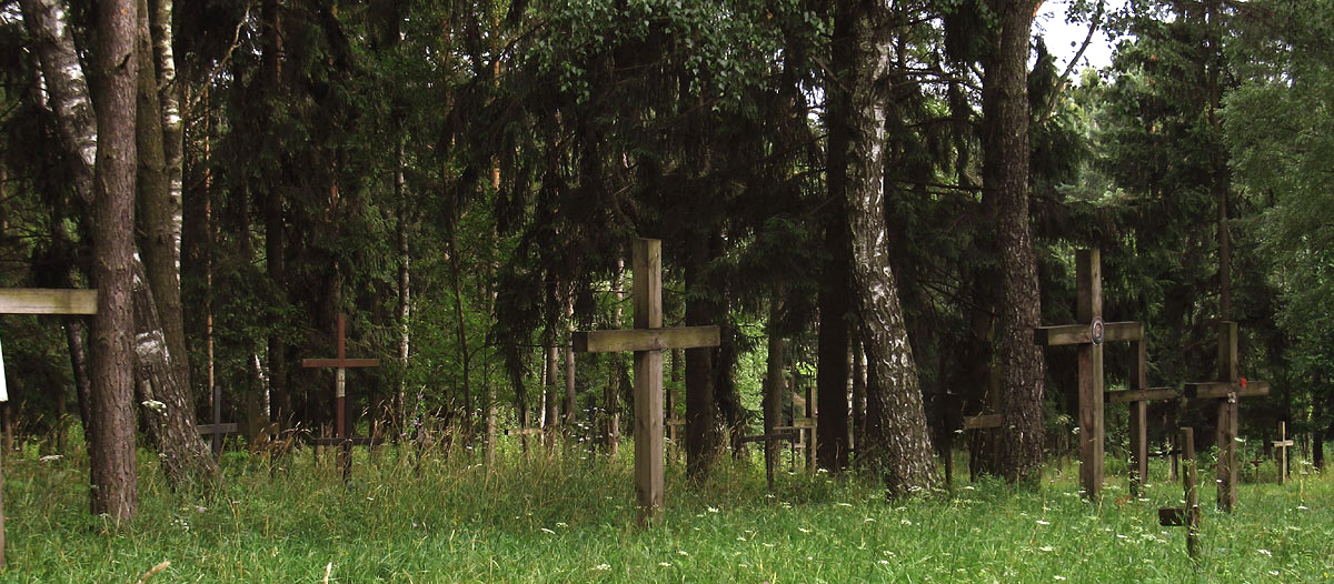 Kurapaty near Minsk is the place where mass executions of Belarusian civilians were carried out during the Stalin regime (1937 - 1941) Беларуская (тарашкевіца): Урочышча Курапаты пад Менскам — месца масавых расстрэлаў і пахаваньняў беларускіх цывільных асобаў, зьдзейсьненыя падчас сталінскіх рэпрэсіяў у 1937—1941 гадох